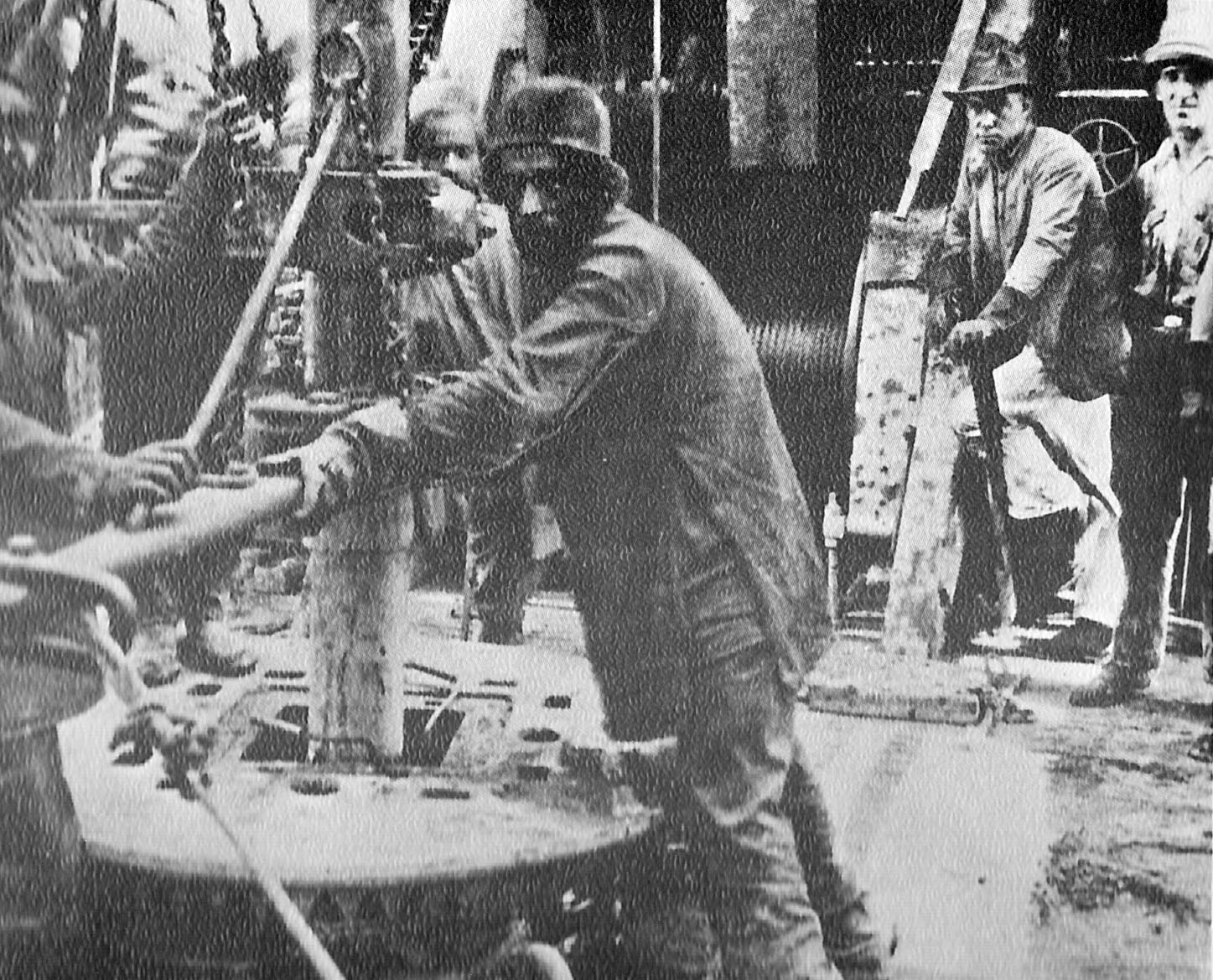 The first drilling activity undertaken in Masjed Soleyman (MIS) in Iran 1908